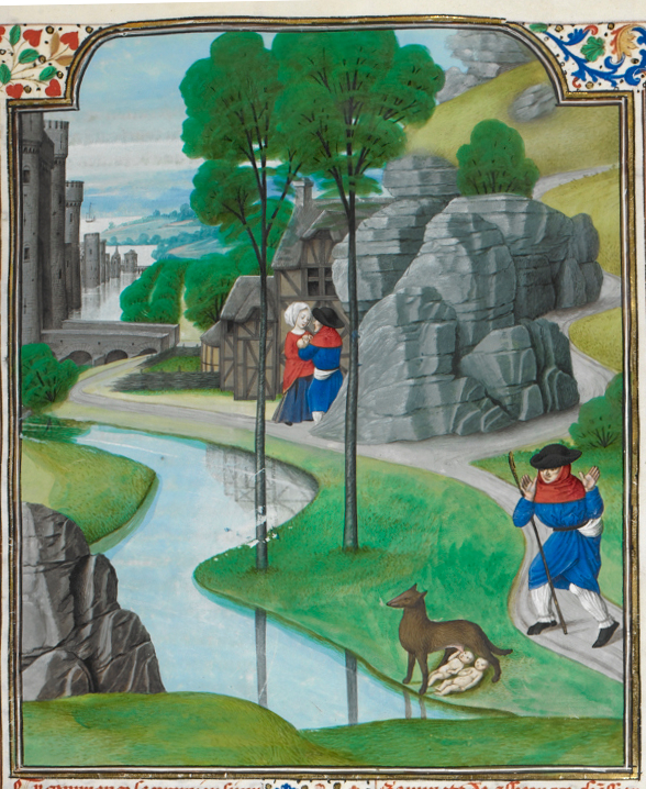 Two consecutive events taking place on the bank of the Tiber: Romulus and Remus being suckled by a wolf, with Faustulus raising his hands in surprise, and Faustulus giving Romulus and Remus to Laurentia; detail of a miniature from BL Royal MS 19 E v, f. 32r. Held and digitised by the British Library.